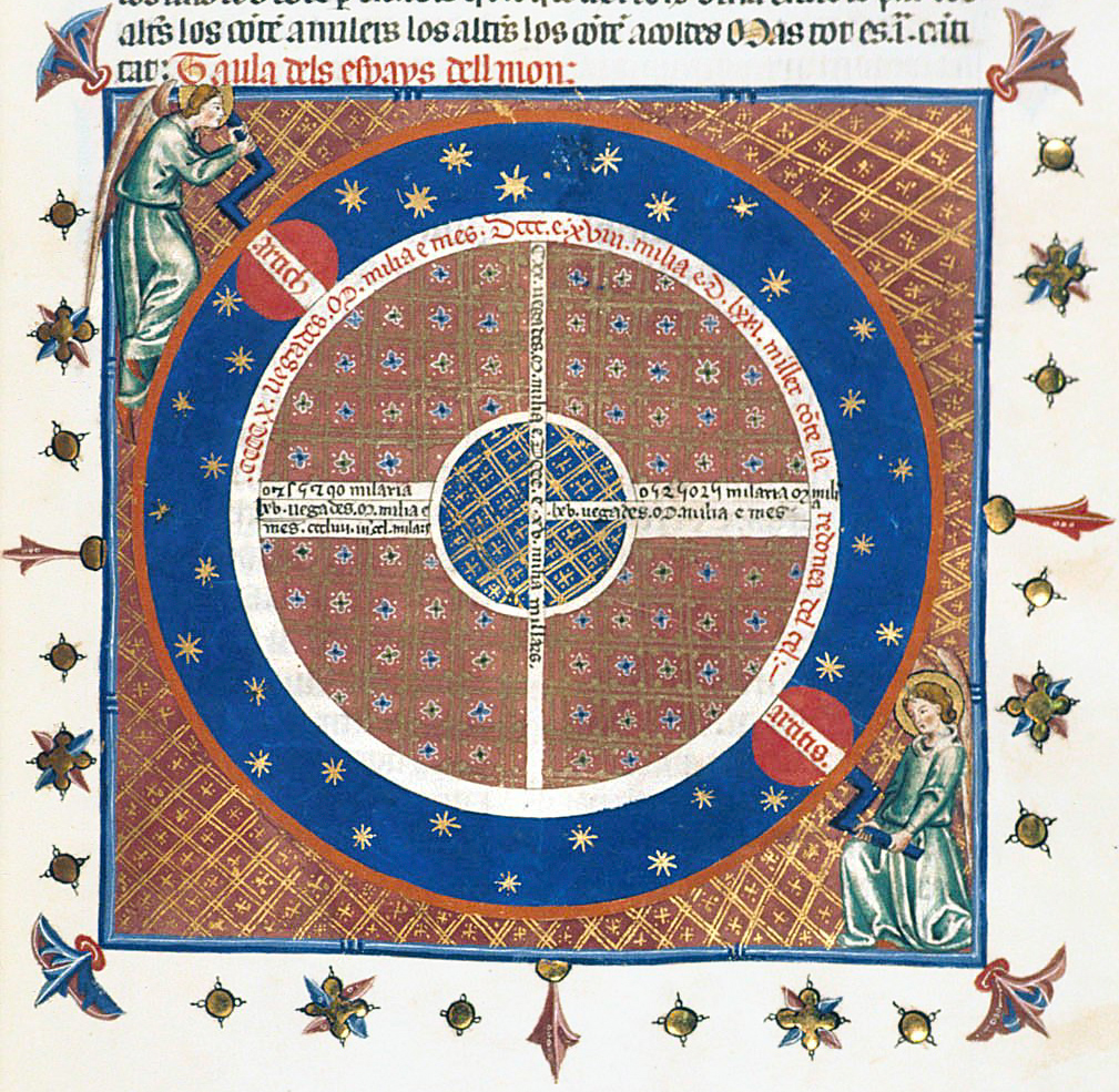 British Library, ms Yates Thompson 31 f. 45 Breviari d'Amour Cosmological diagram showing angelic movers turning cranks to rotate the celestial spheres